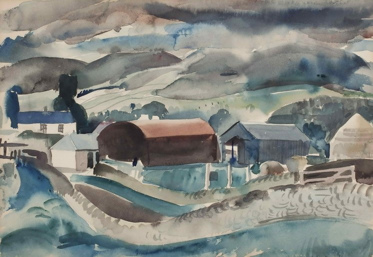 Border farm scene with outbuildings under heavy sky by William Geissler ca. 1931; Watercolour and pencil 25.4cm x 36.8cm.